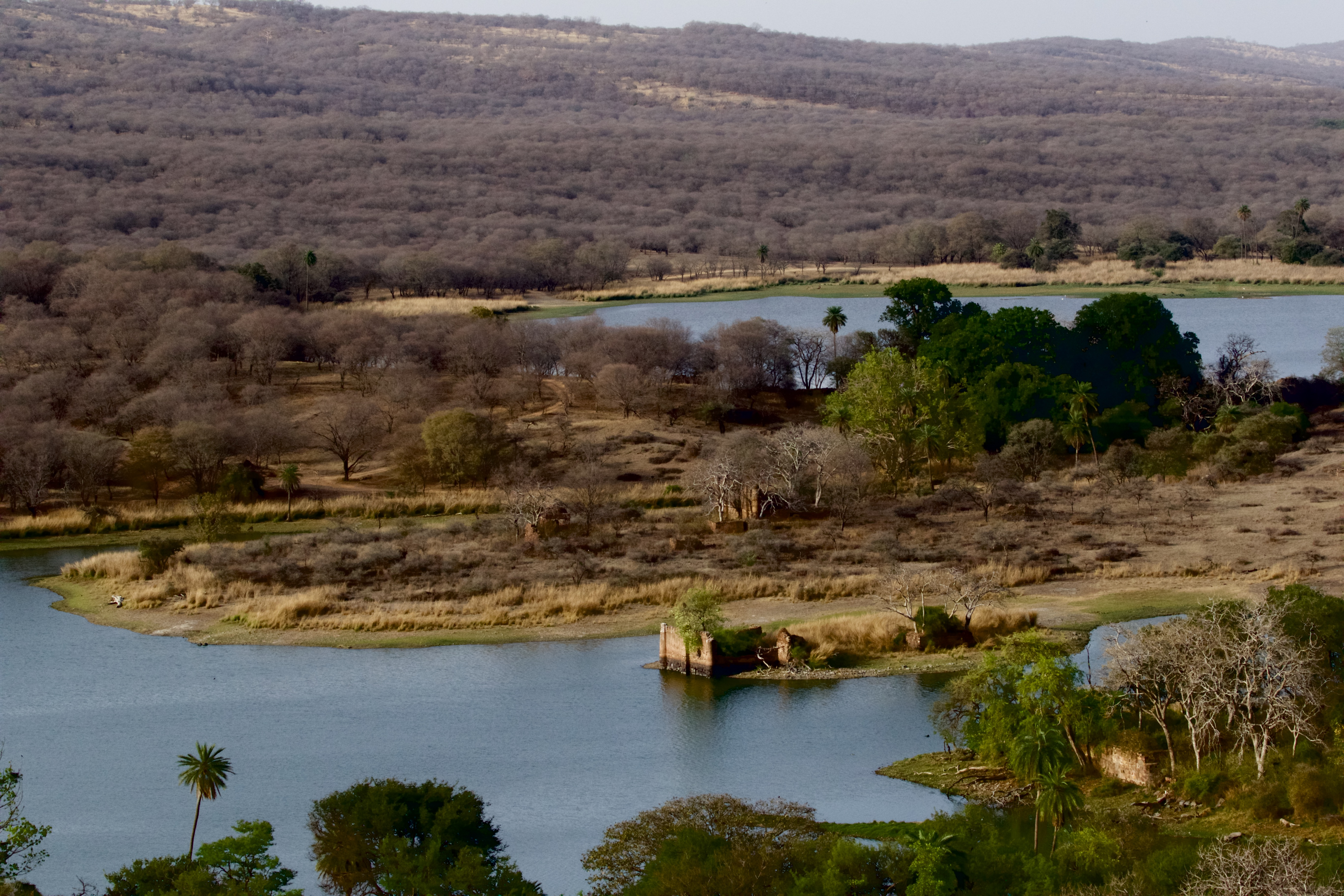 View of Padam Talao lake from Ranthambore fort